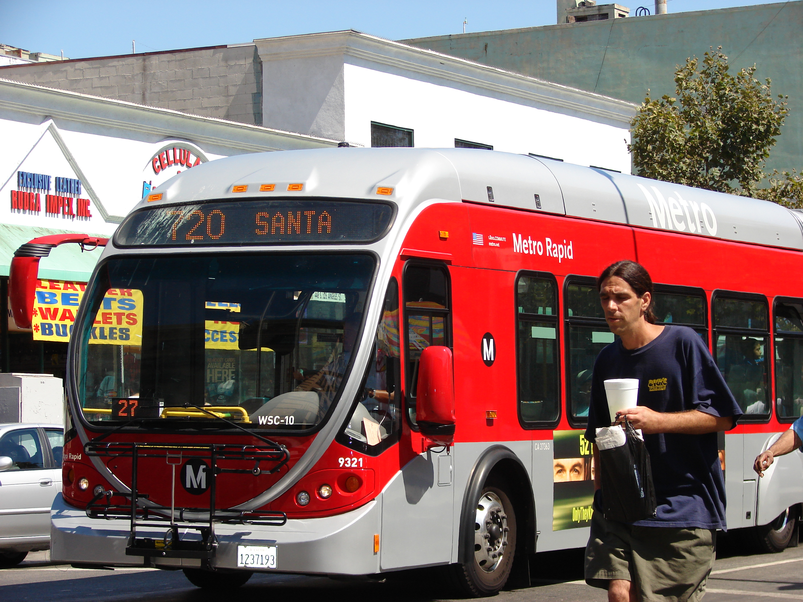 LACMTA Metro Rapid Line 720 bus headed to Santa Monica